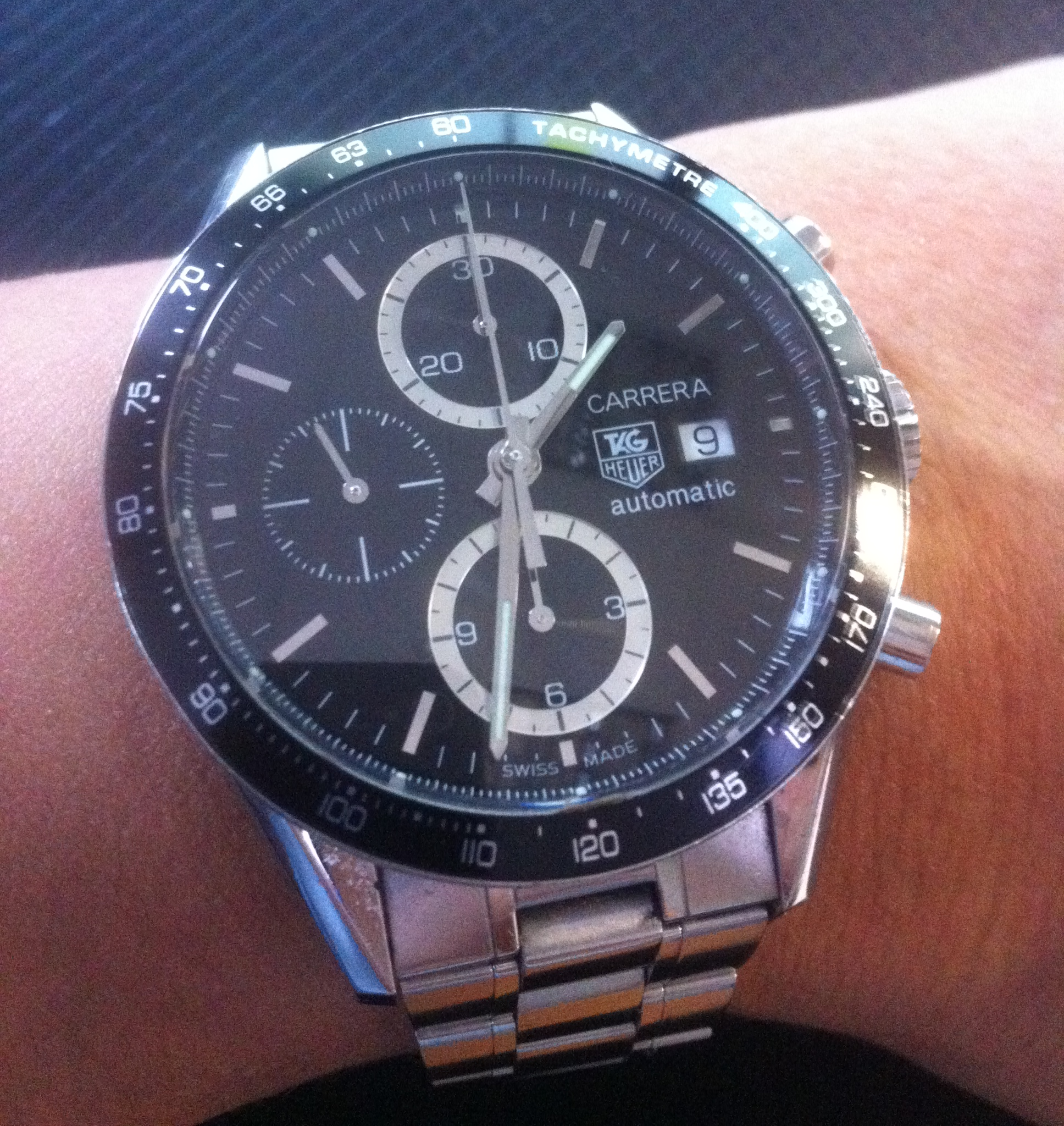 2008 Tag Heuer CV2010 Carrera. (Cardiff, UK, Nov 2012)